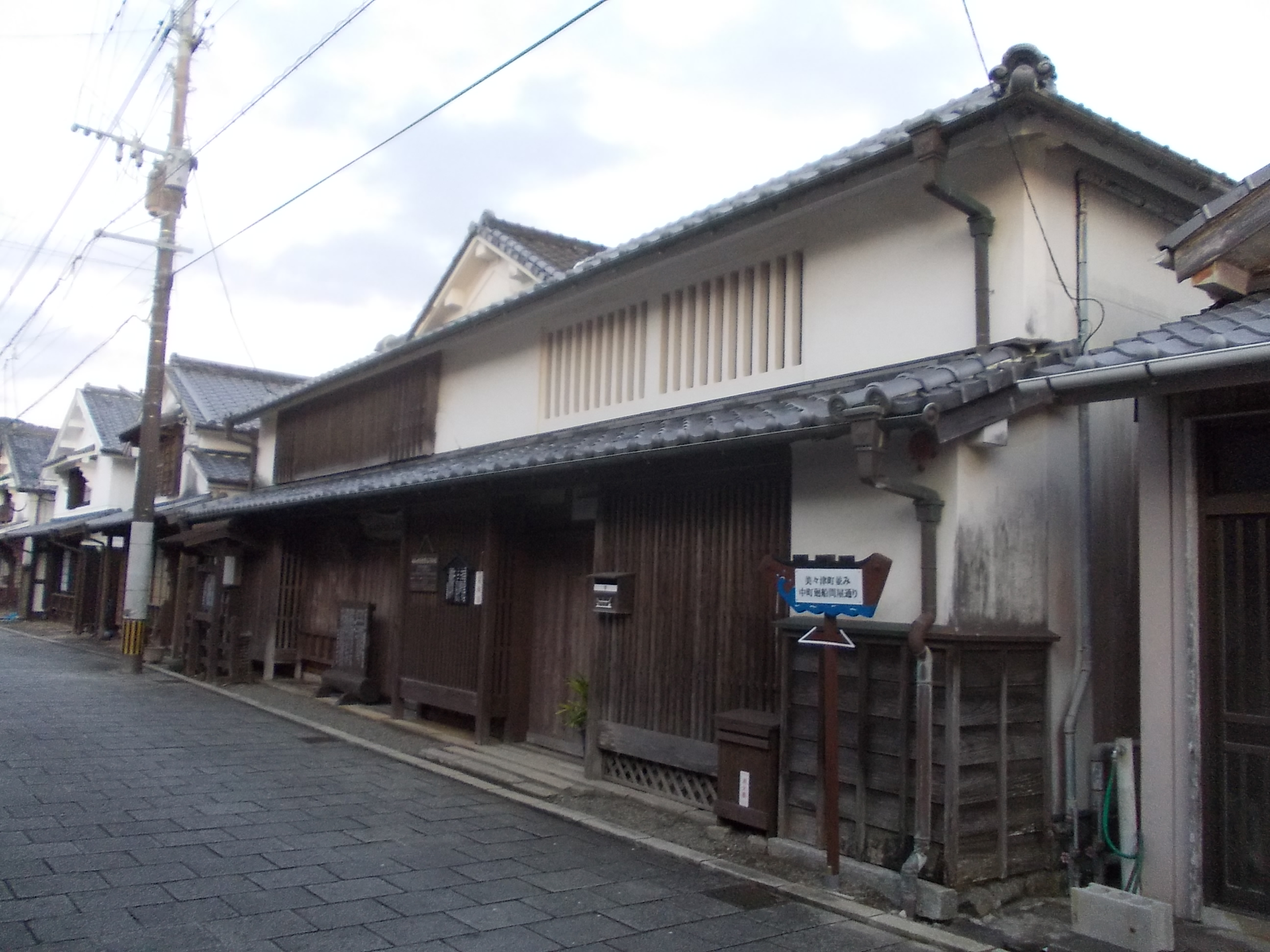 Hyuga Historical and Folk Museum, Hyuga, Miyazaki, Japan